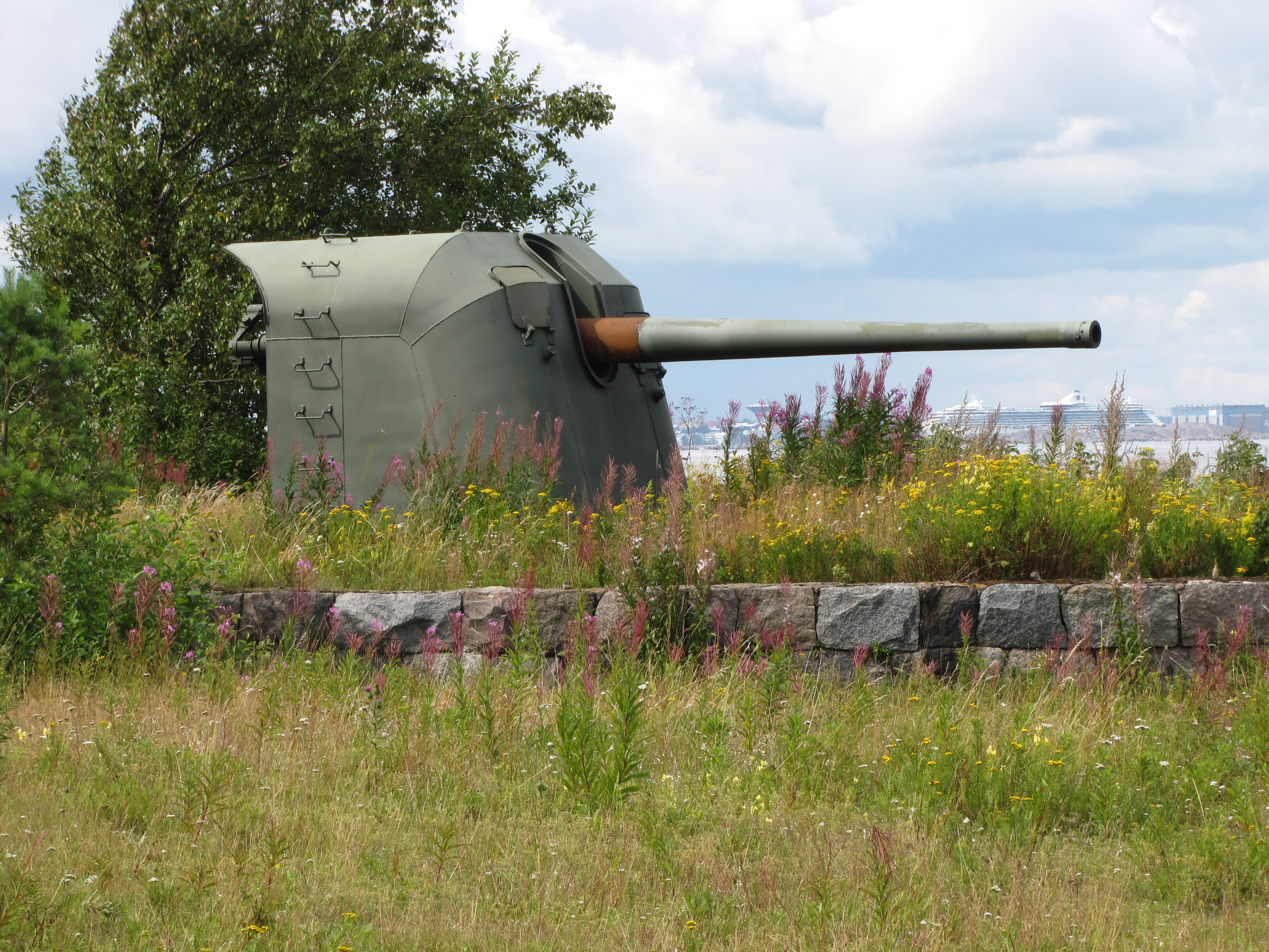 130 mm 50 calibre coastal gun in Kuivasaari. This gun is a Soviet Union 130 mm gun B-13 that was captured by finns in World War II.